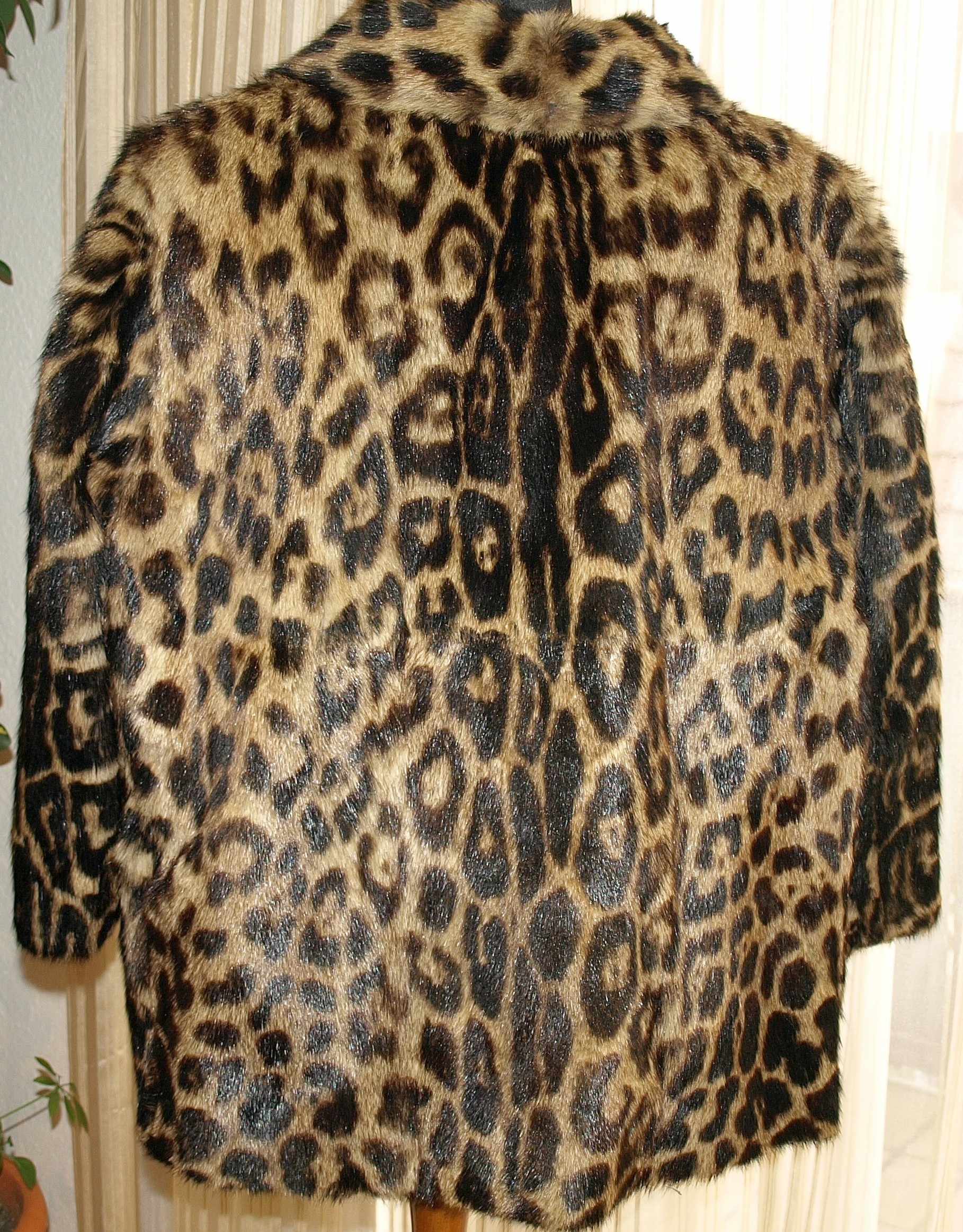 Marmot fur jacket, jaguar printed